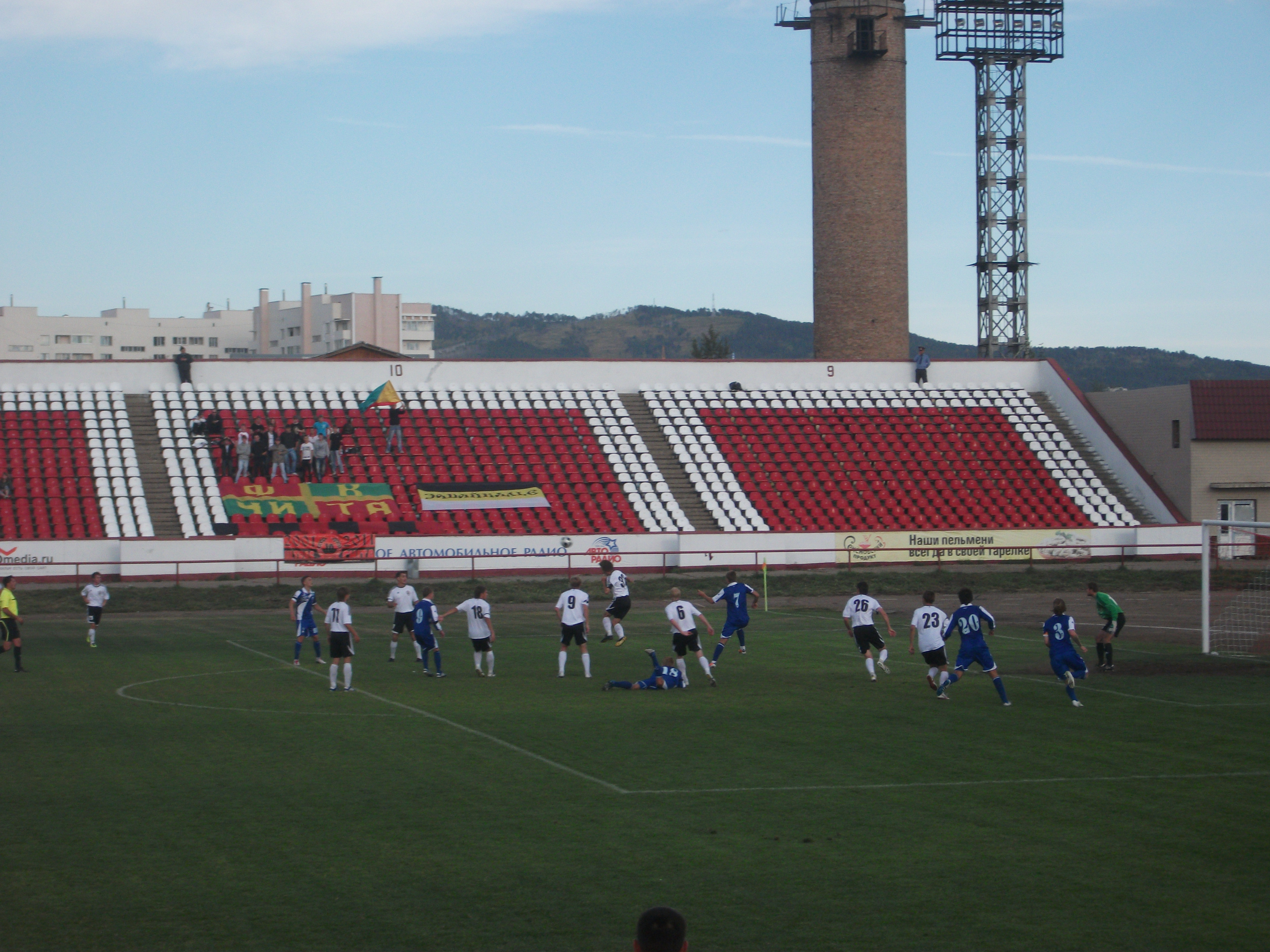 Alexander Bodyalov knocks the ball out of the penalty area. Episode of the match «Chita» - «Sibir-2». 26th round of the competition in «East» zone of the Russian second division. September 10, 2011.